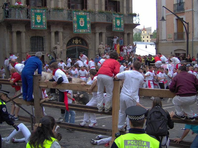 Bulls running on 7th July 2005, Consistorial Square, Pamplona. Image taken by Johnbojaen and uploaded on 1st september 2005.